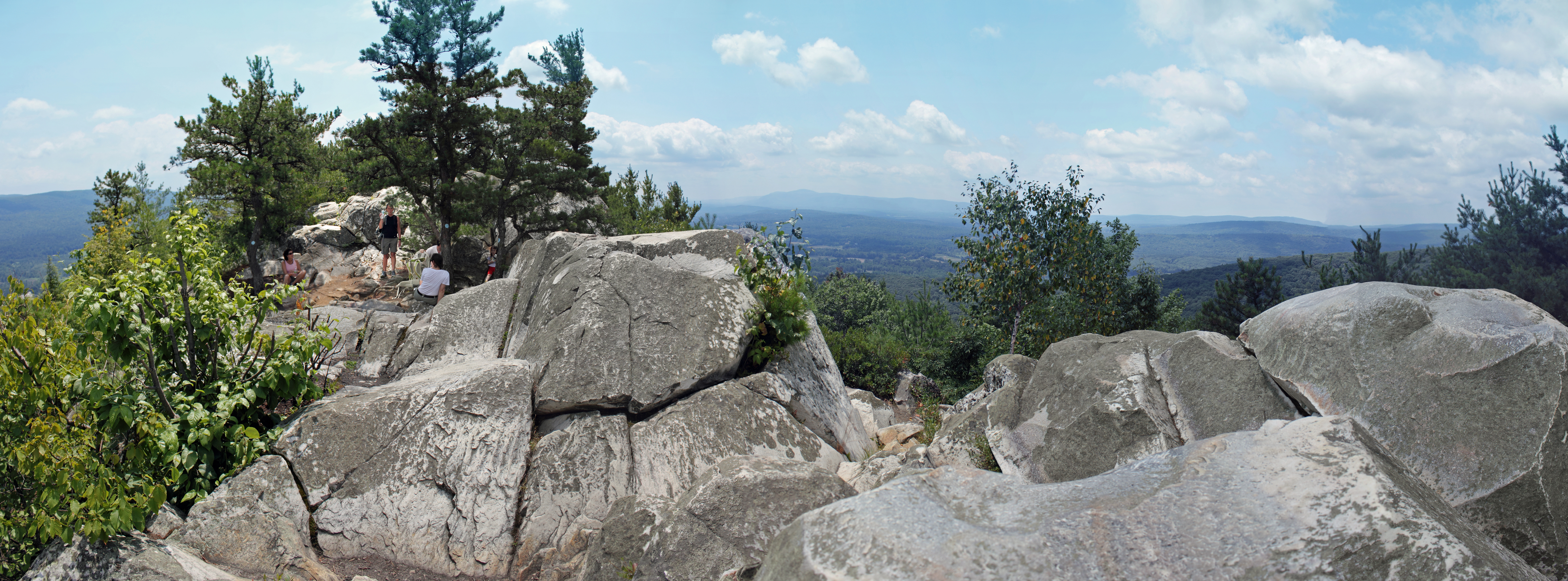 Squaw Peak on Monument Mountain located in Great Barrington, Massachusetts.